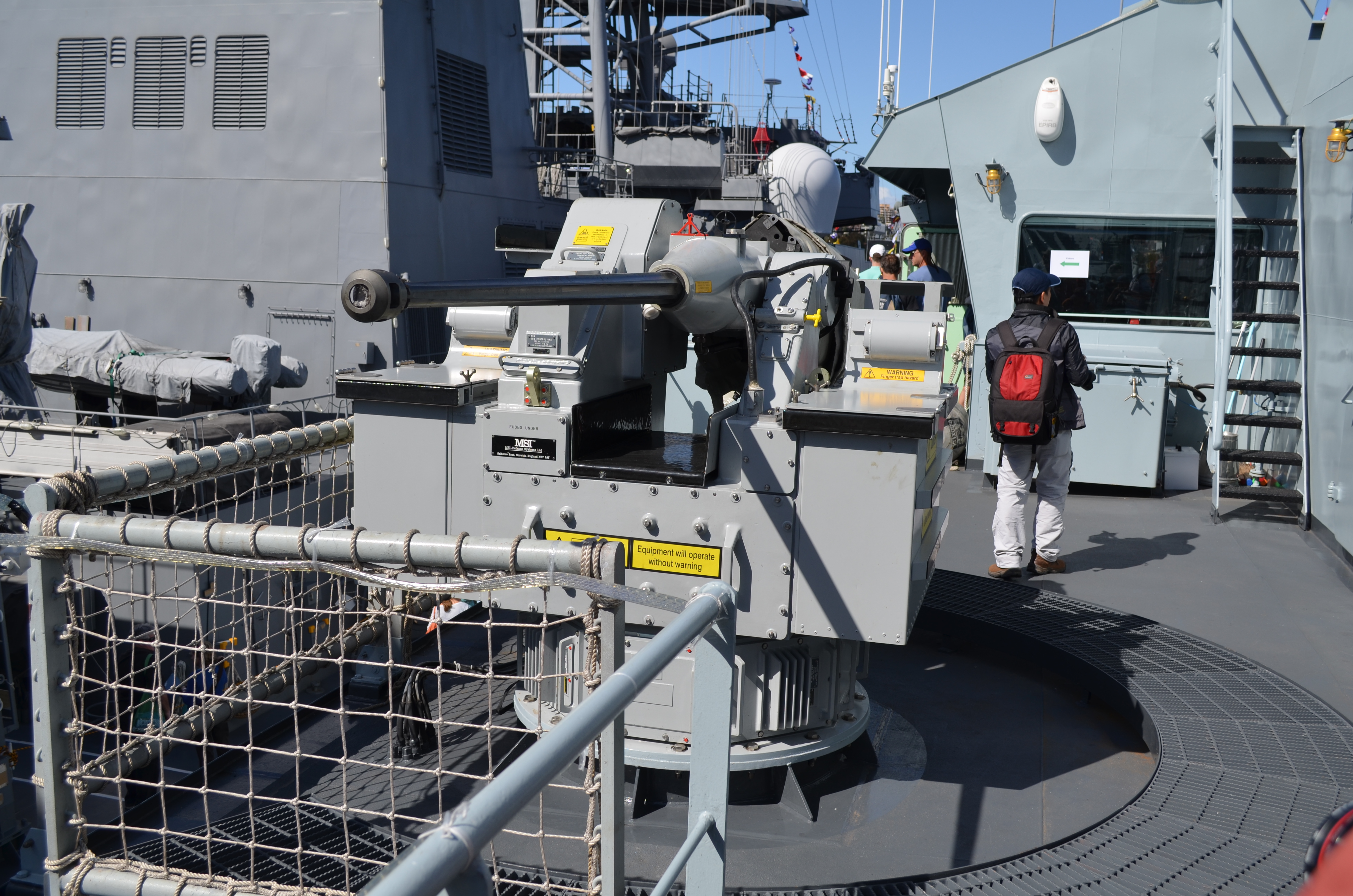 Photographs taken during day 5 of the Royal Australian Navy International Fleet Review 2013. One of the two MSI 30 mm guns fitted to the Thai patrol boat Krabi